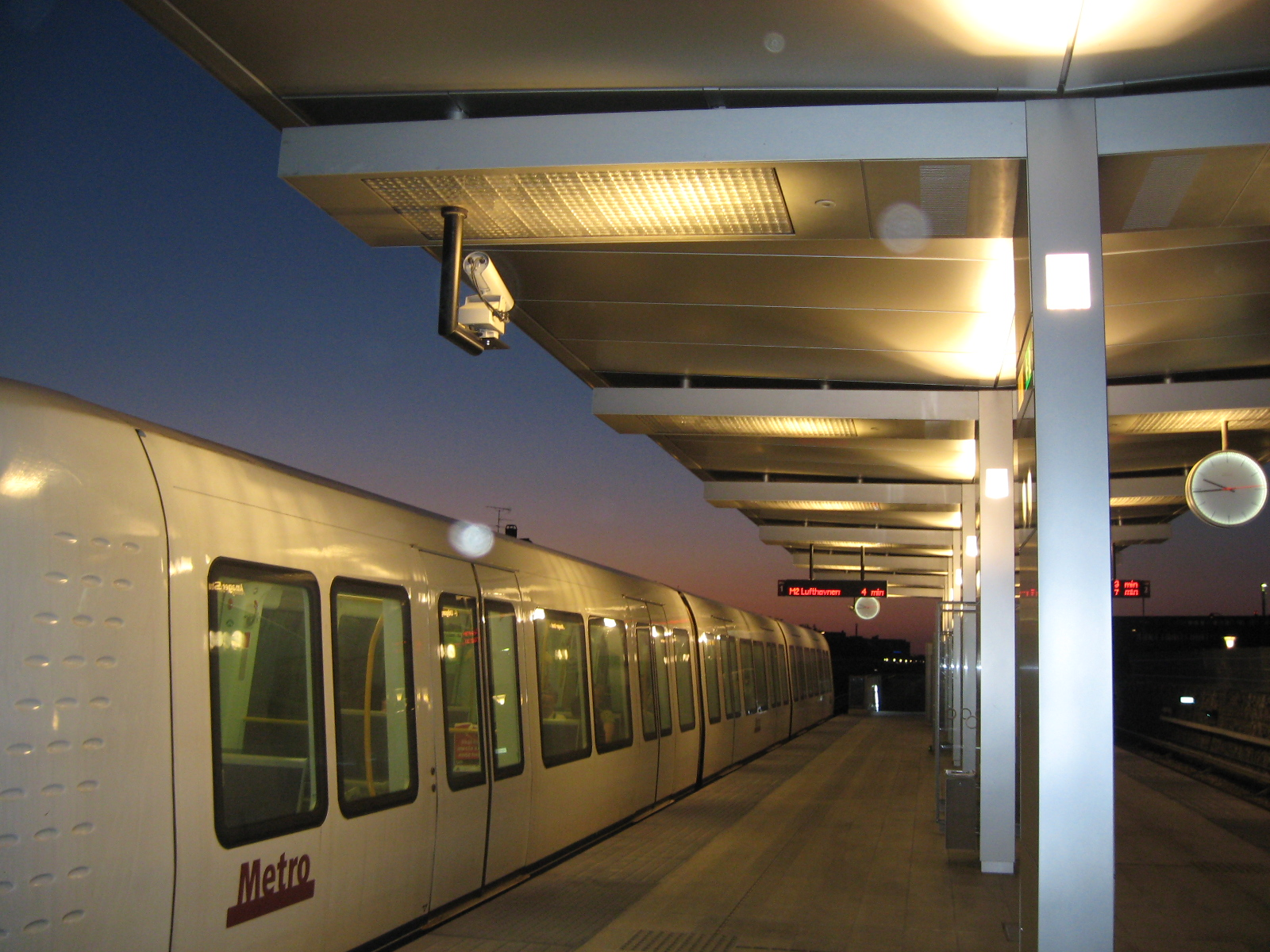 Amager Strand station